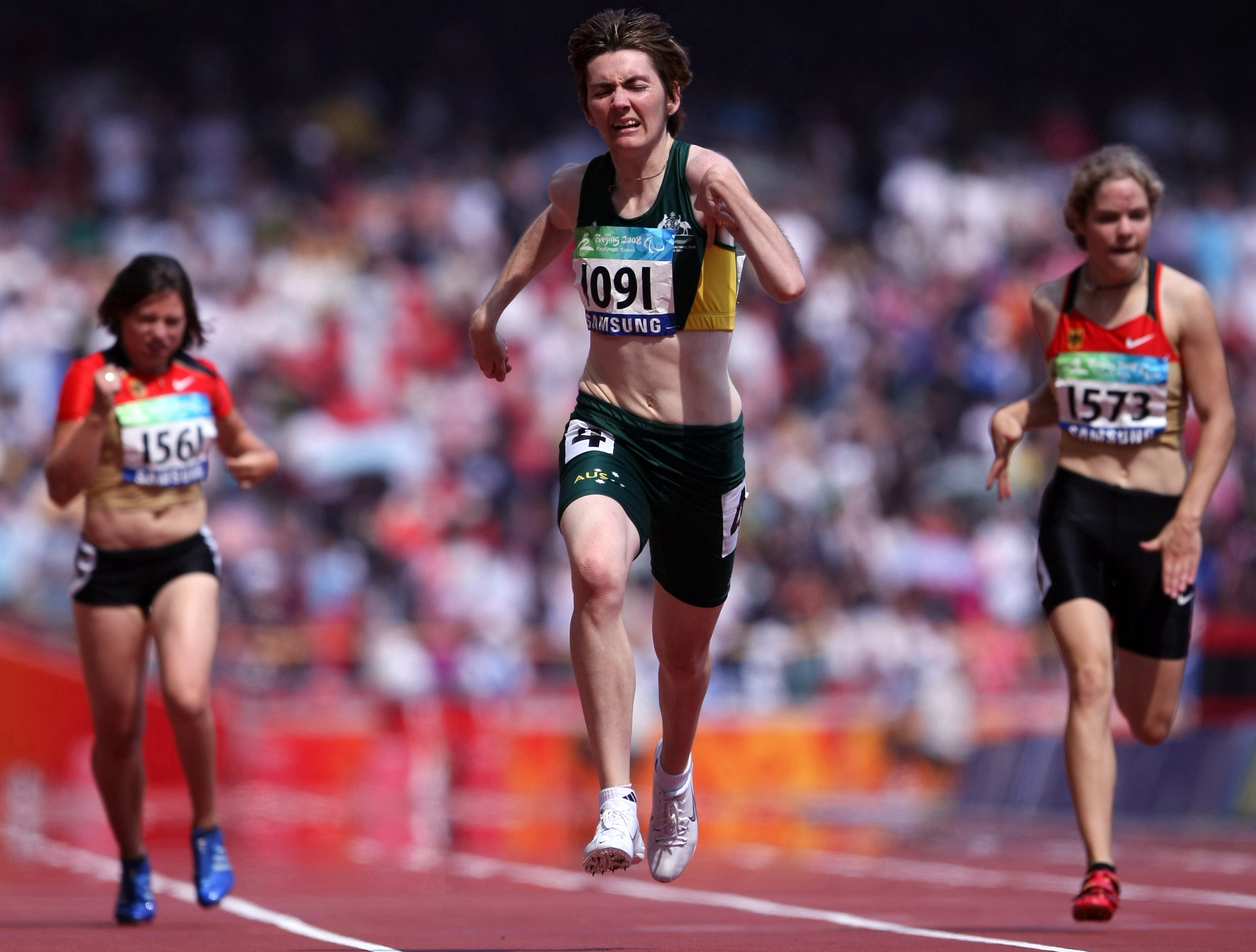 Australian athlete Lisa McIntosh on her way to victory in the women's T37 100m final at the Beijing 2008 Paralympic Games